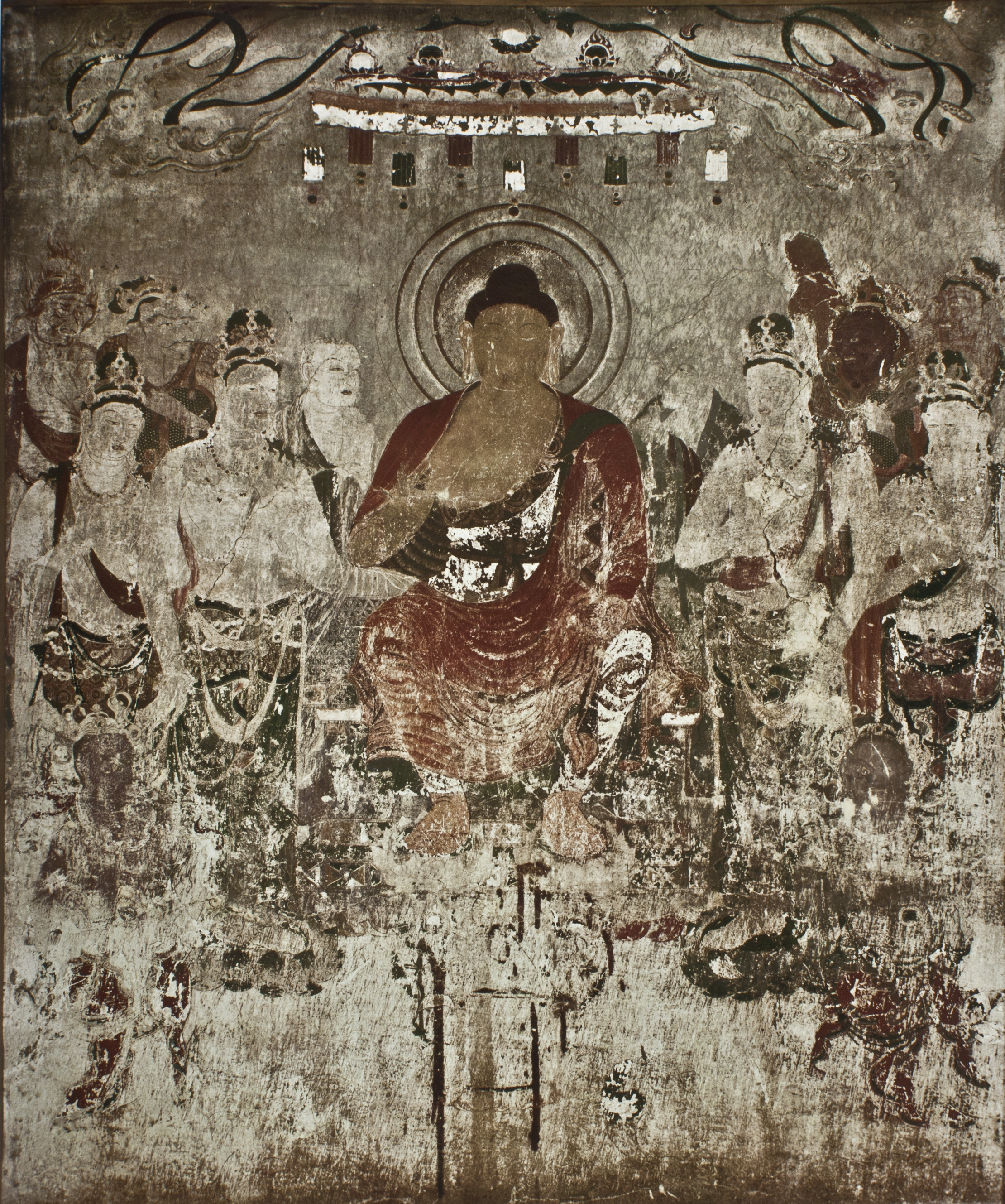 north wall, east panel of the kondō, Horyuji, Ikaruga, Nara, Japan